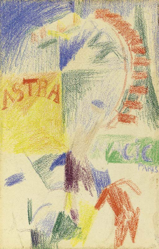 L'Équipe de Cardiff. Colored wax crayons on paper laid down on board, 28 x 17.8 cm. Paris, 1913.